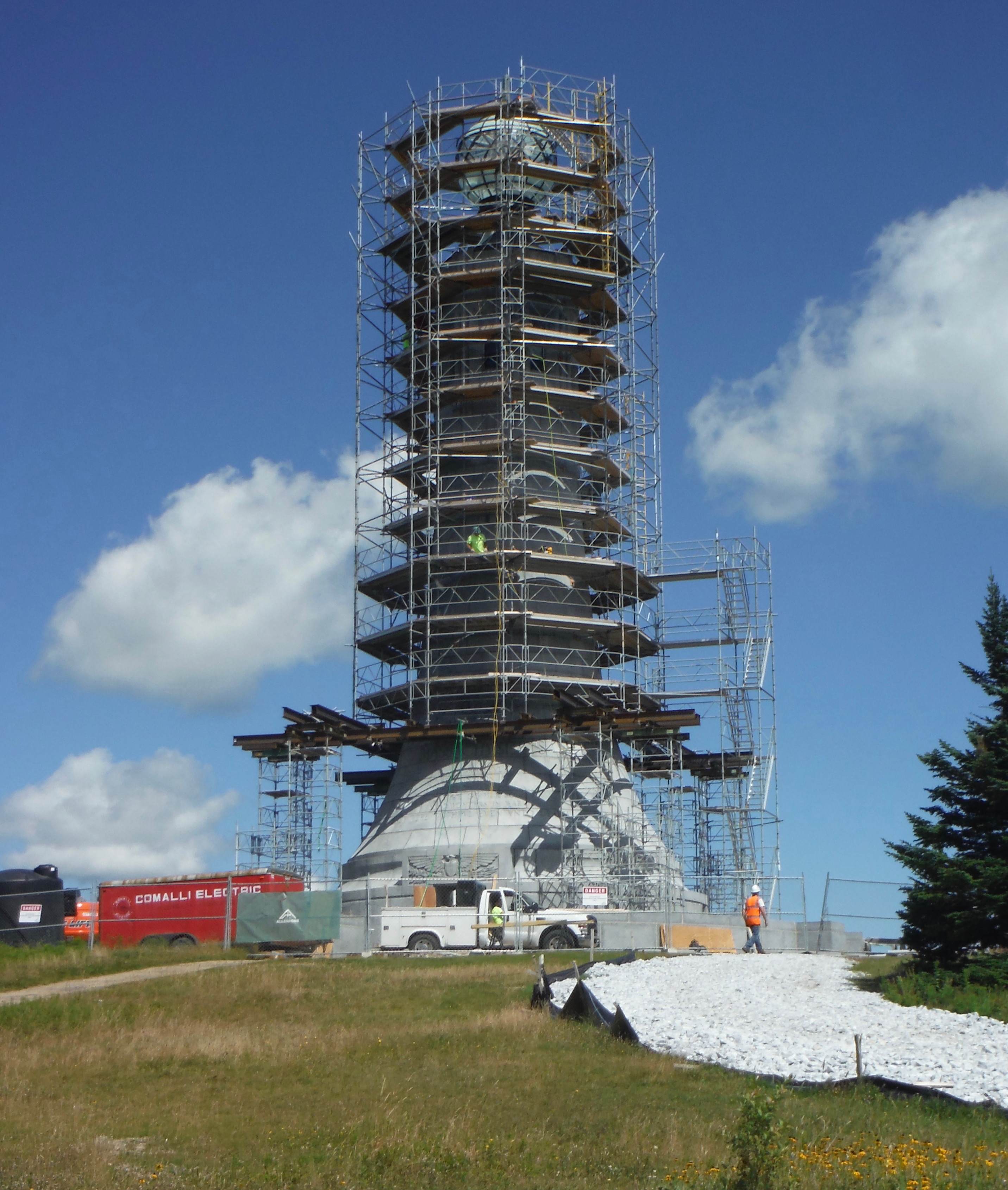 Renovations due to persistant water infiltration